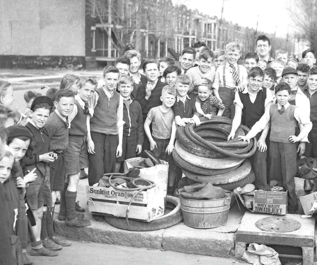 Young people from Rosemont in Montreal recover rubber for the armed forces. They picked up the tires of bicycles and cars, shoes and other items.